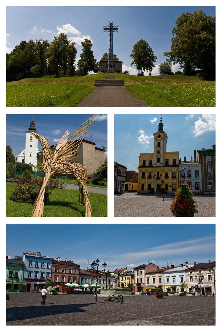 A collage of images of Skoczów. From top, left to right: Papal Cross on Kaplicówka Hill, Pagasus statue in front of St Peter and Paul's Church, Town Hall, Main Square